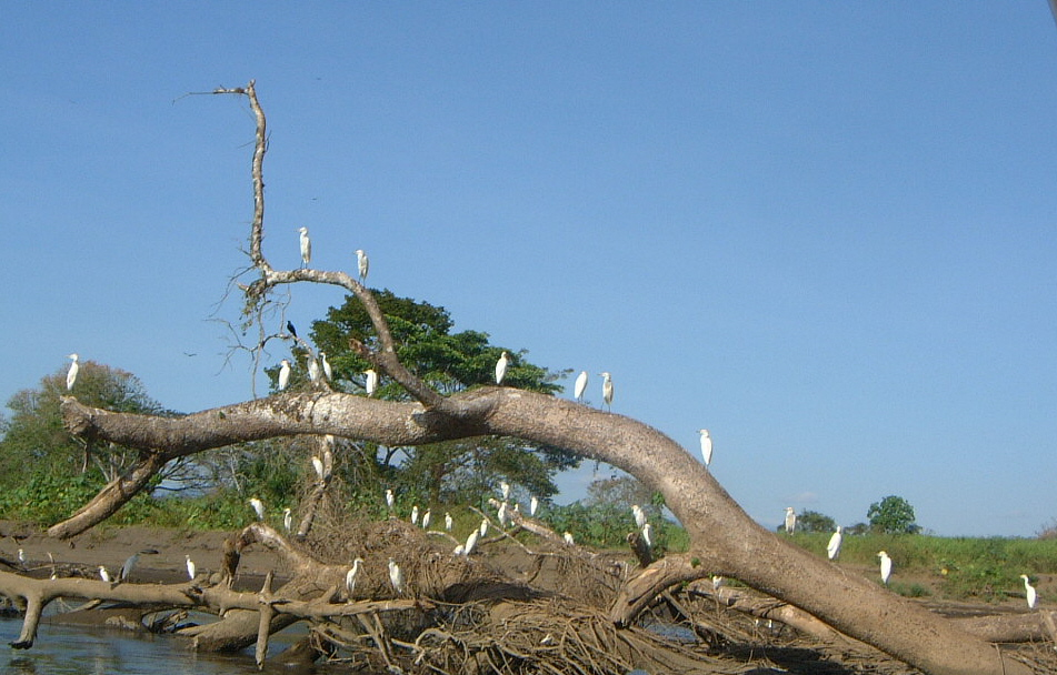 Cattle Egret (Bubulcus ibis en ) taken on the Tárcoles River in Costa Rica. My image, February 2006 jimfbleak 08:55, 10 August 2006 (UTC)